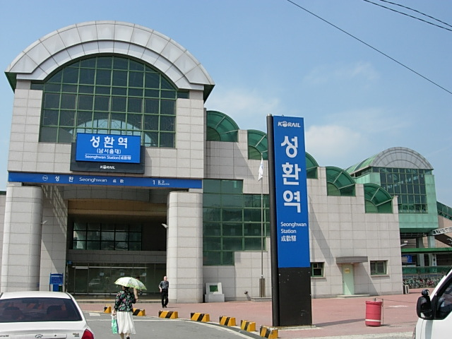 Seong hwan Station